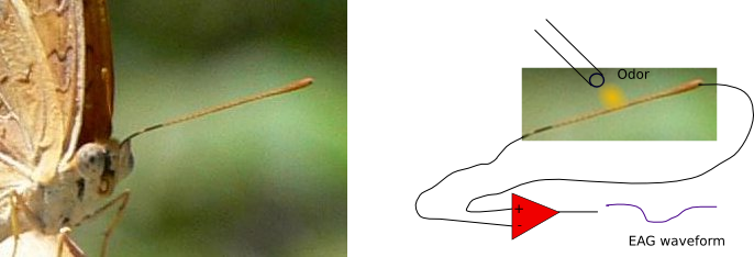 Joby Joseph; Personal photography collection.